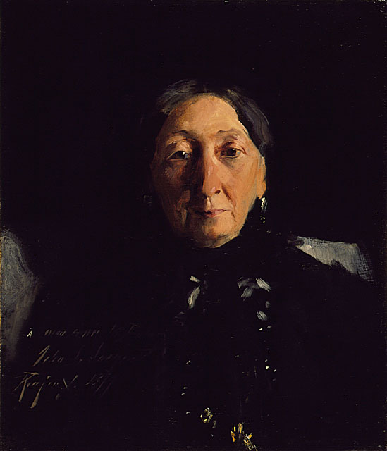 Mme. François Buloz (Christine Blaze) John Singer Sargent -- American painter 1879 Los Angeles County Museum of Art Oil on canvas 54.77 x 46.67 cm (21 9/16 x 18 3/8 in.) Gift of Mr. and Mrs. Harry F. Sinclair and Mary D. Keeler Bequest Jpg: LACM